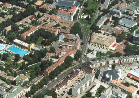 Makó, Hungary, aerialphotography